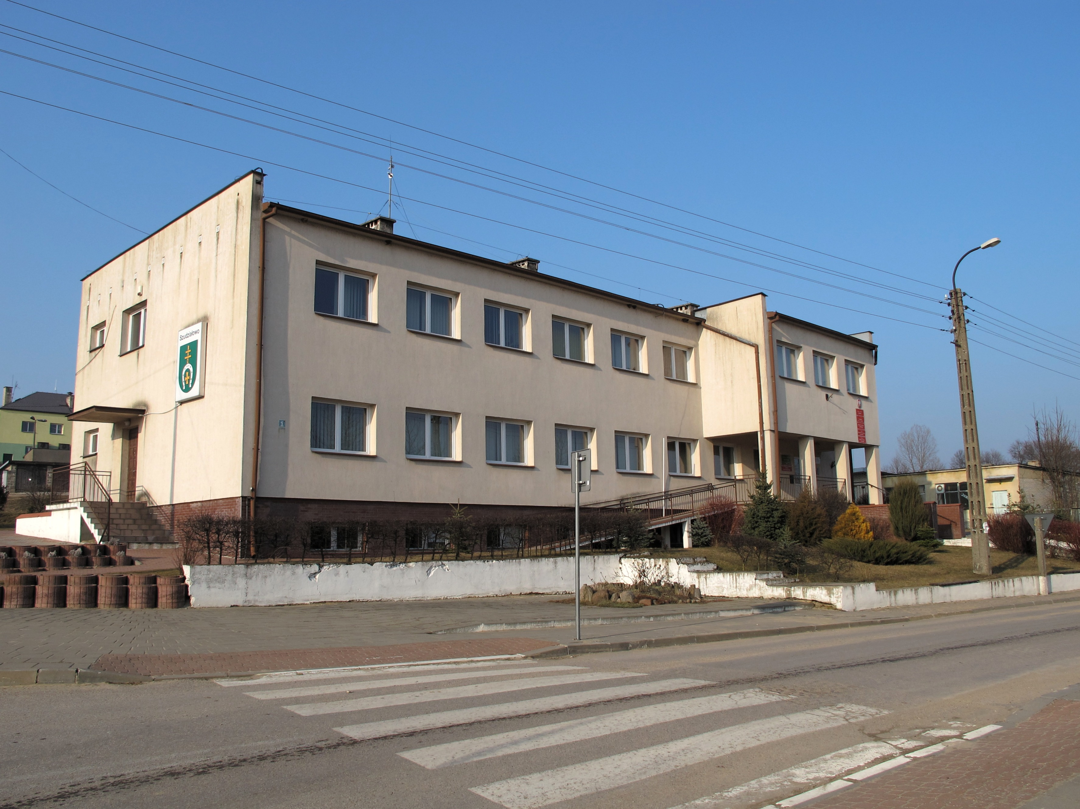 Szudziałowo gmina office in Szudziałowo, gmina Szudziałowo, podlaskie, Poland